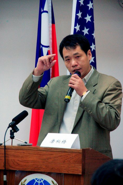 Tang Baiqiao was making a speech in Culture Center of Taipei Economic and Cultural Office in New York in 2010.